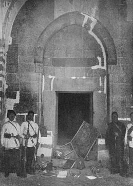 (Armenian Church Plundered and Desecrated by Tartars.